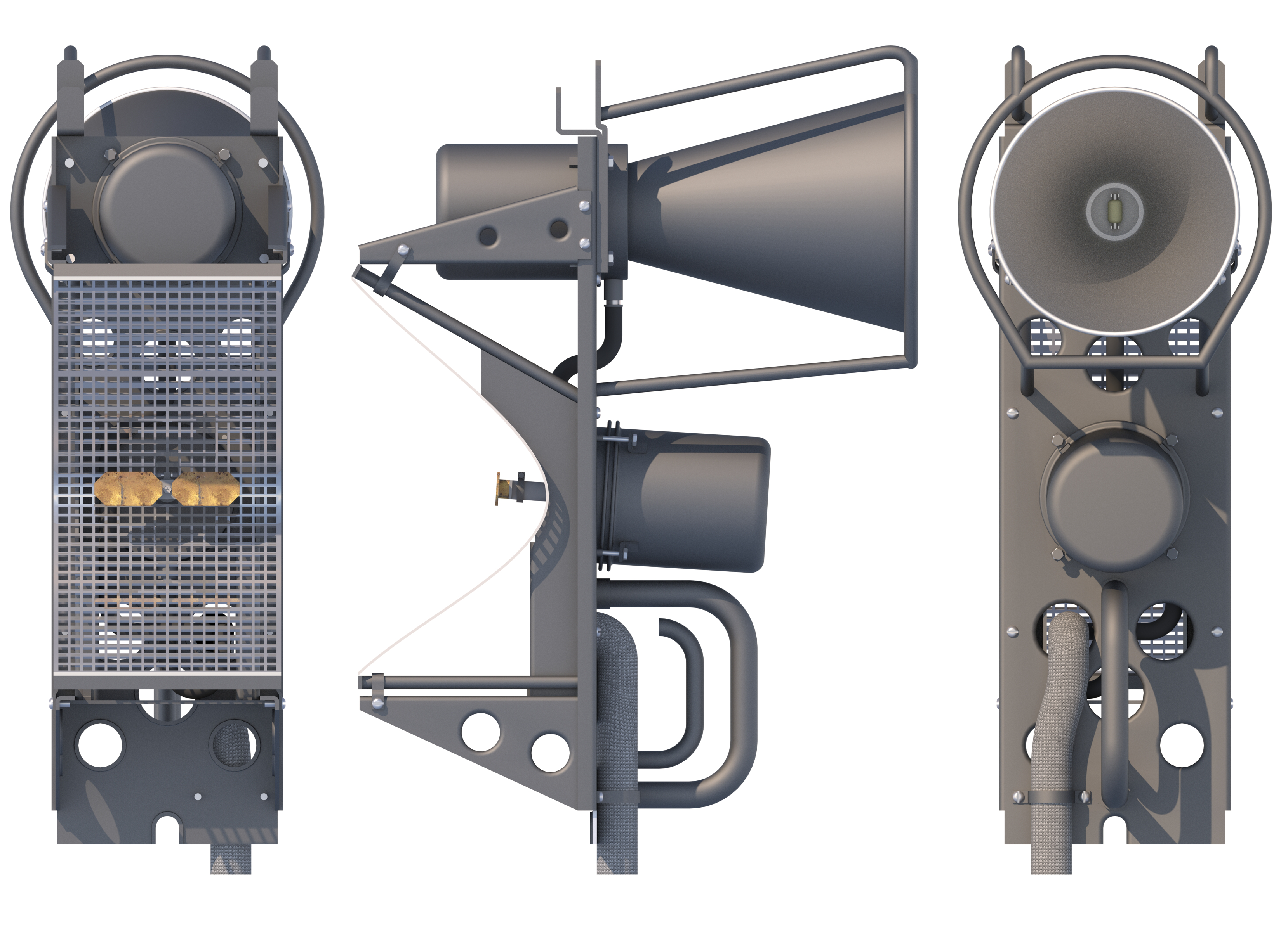 The FuMB-26 was manufacturer by German company Telefunken and NVK. The FuMB-26 combined the FuMB 24 and the FuMB 25.